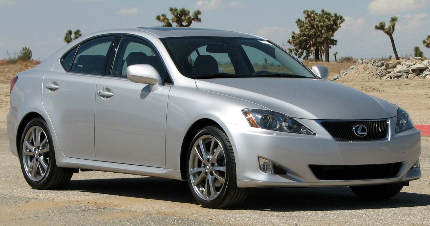 2008 Lexus IS250 photographed in USA.